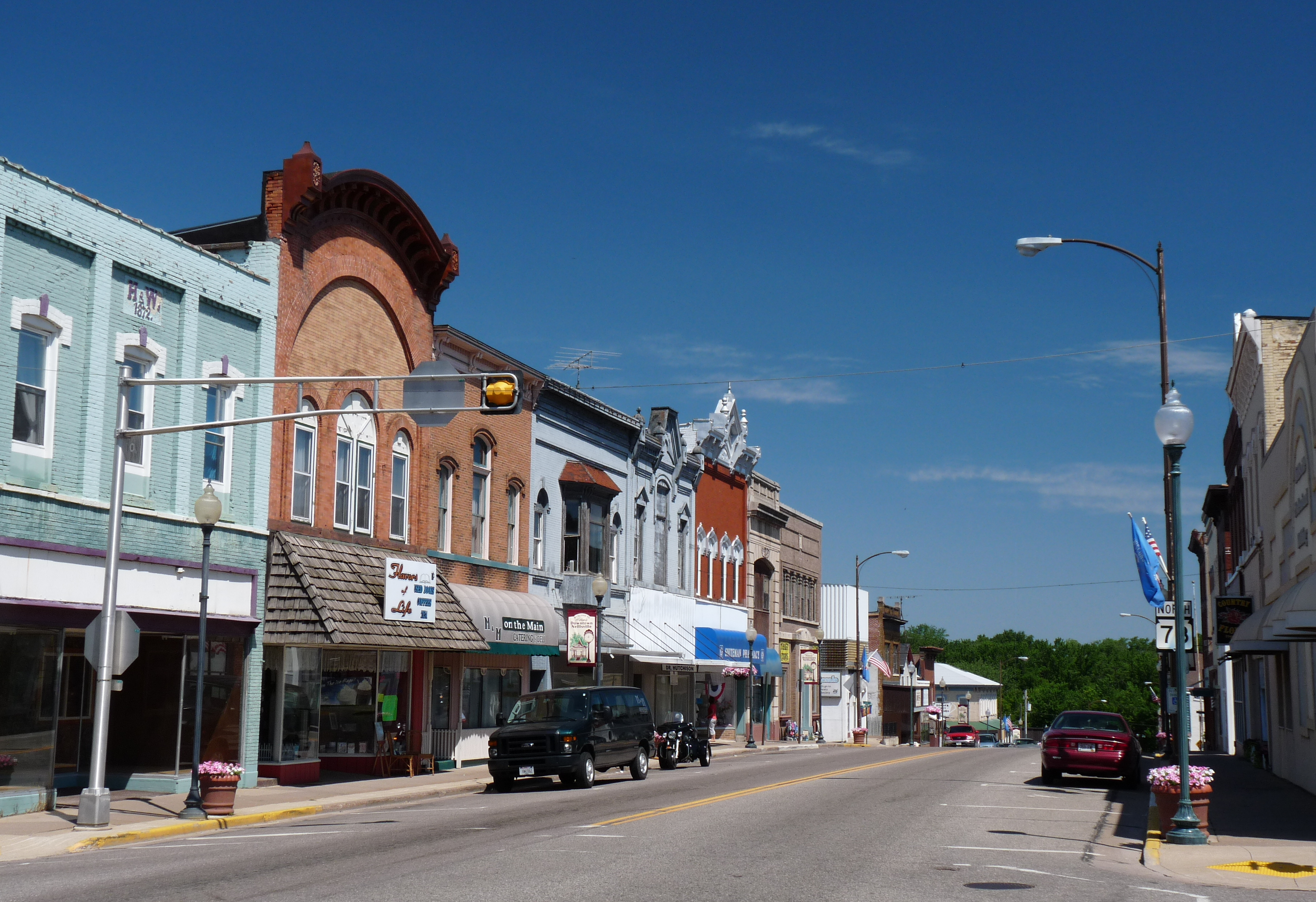 In the downtown of Neillsville, Wisconsin, many old brick buildings from as early as 1872 still serve businesses and customers. The downtown has been designated a historic district by the National Register of Historic Places.